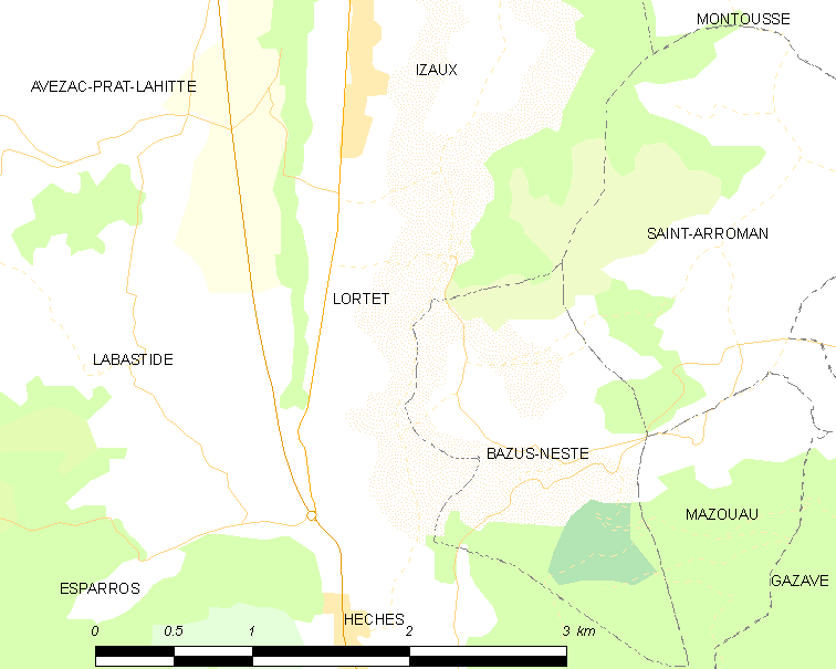 Map of French municipality